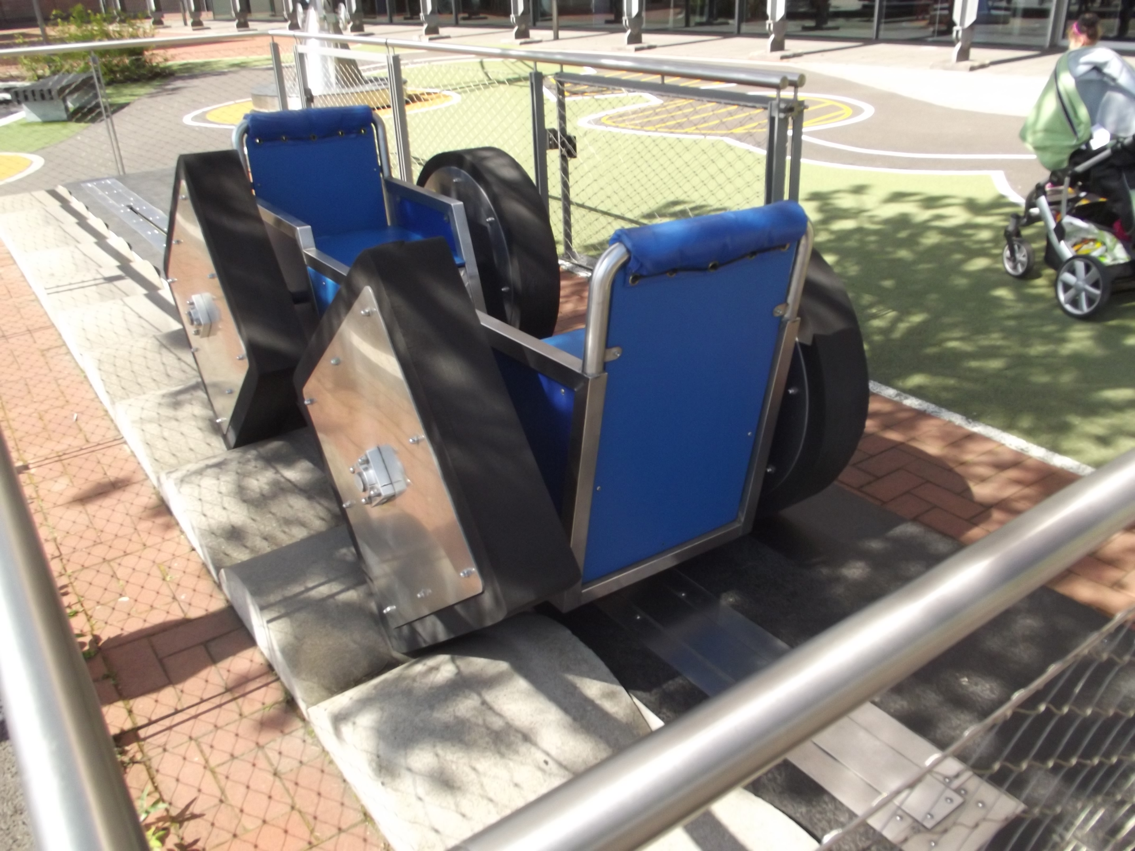 Thinktank Science Garden on Good Friday 2014. One year after my last Thinktank visit, had some free vouchers to use (free entry - but you get a wrist strip to put on). Level 0 Outside: Science Garden. Finally got to enter it, after seeing it many times from the outside! car with square wheels